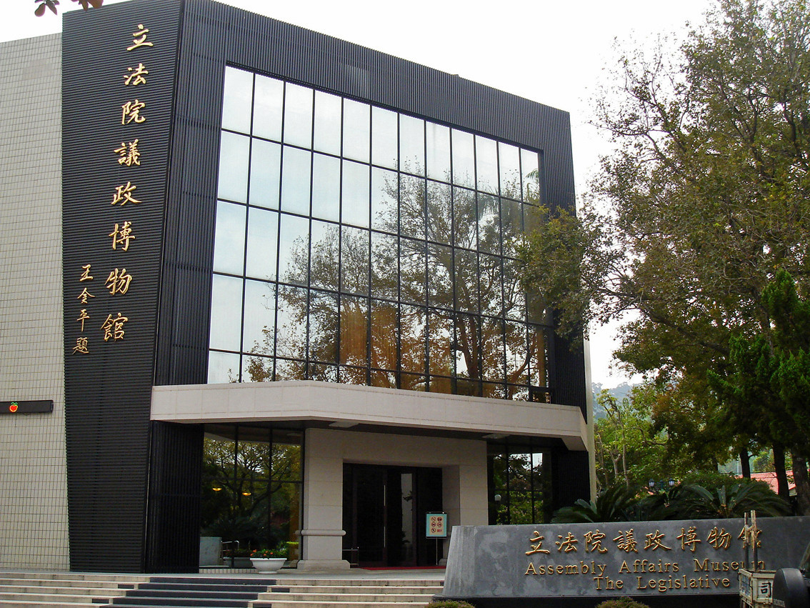 Assembly Affairs Museum, The Legislative Yuan, Wufeng District, Taichung City, Taiwan